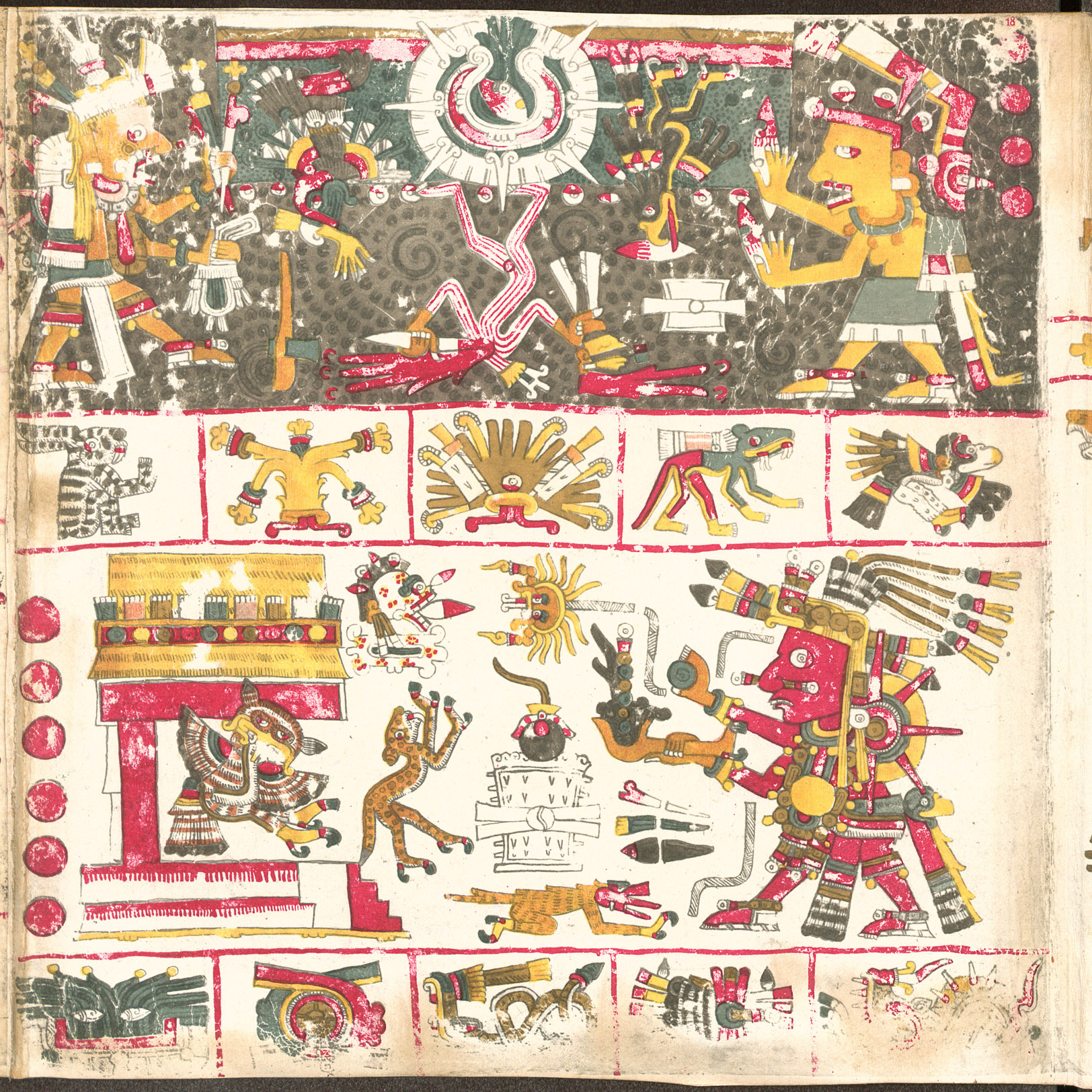 Page 18 of the Codex Borgia.